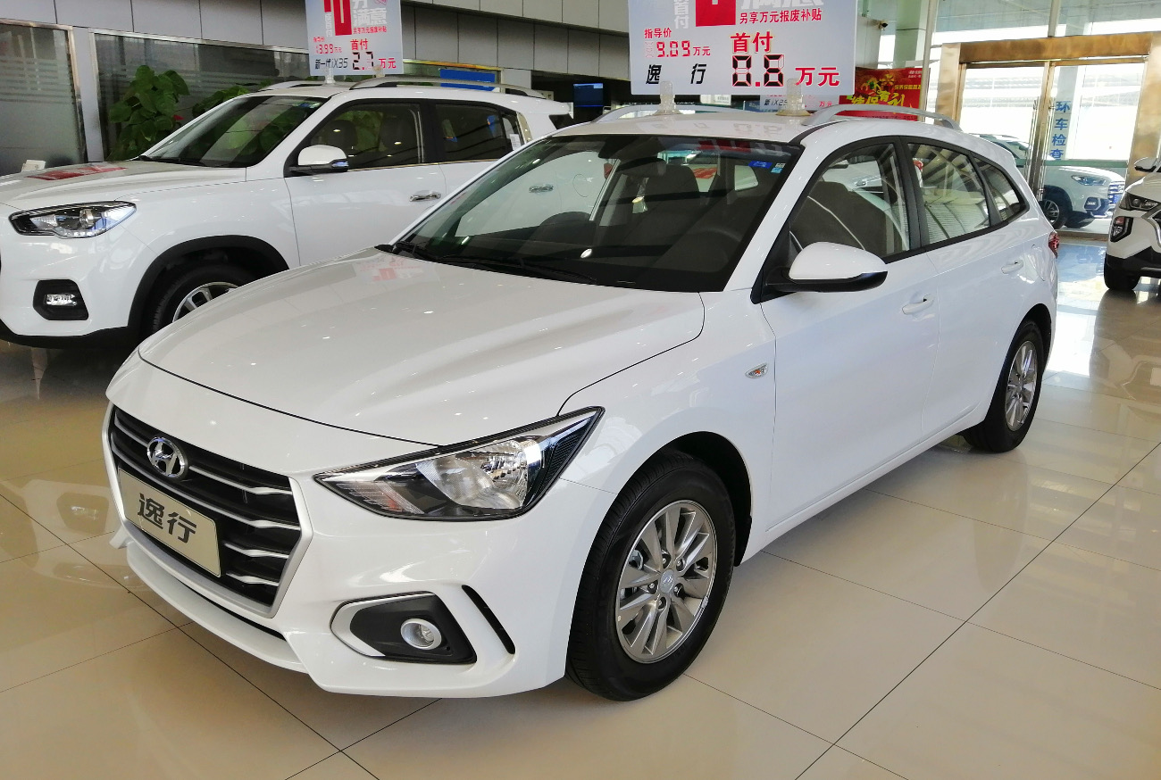 Hyundai Celesta RV photographed in Yinchuan, Ningxia autonomous region, China.